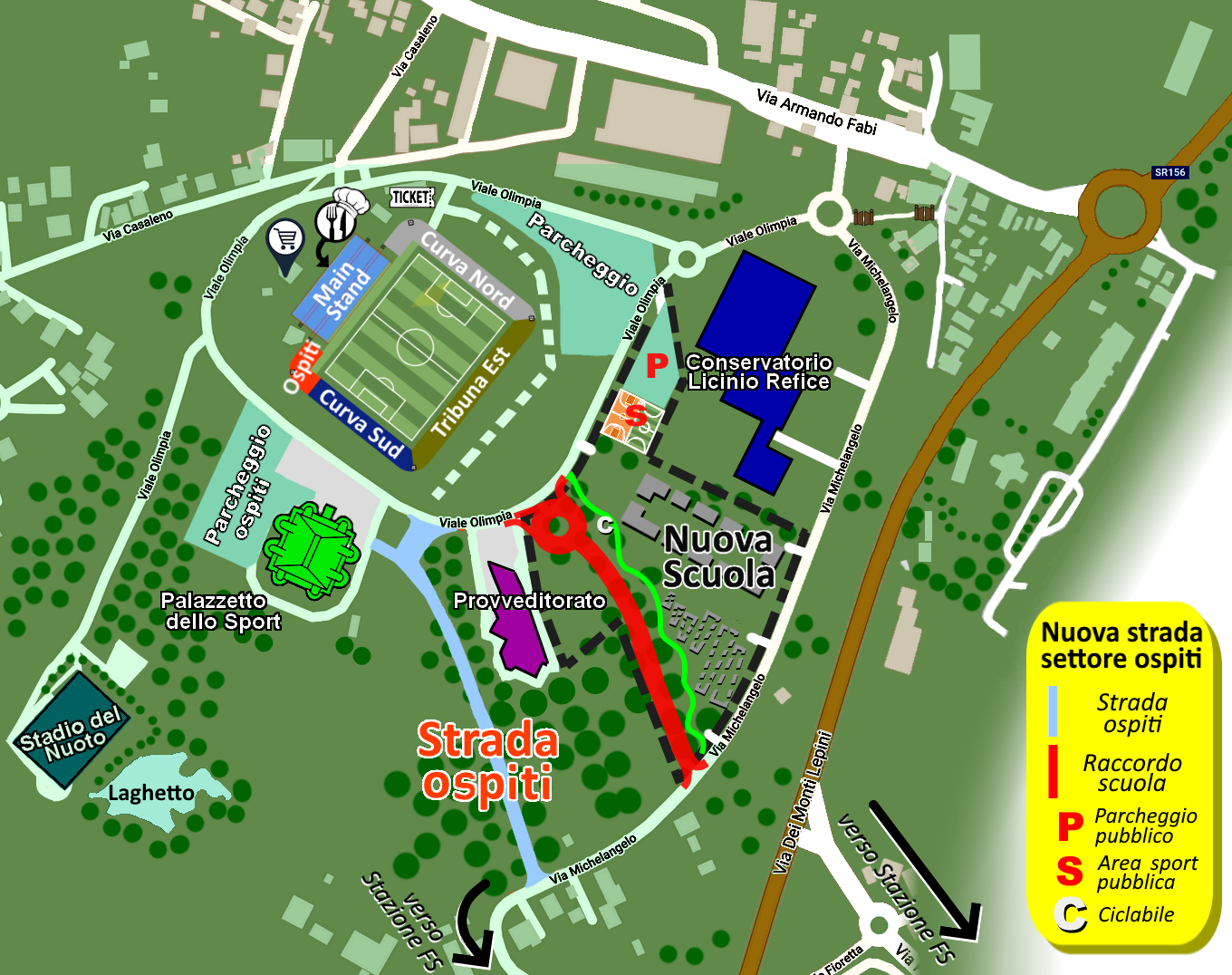 Benito Stirpe Stadium (Frosinone, Italy) - road link to the away end